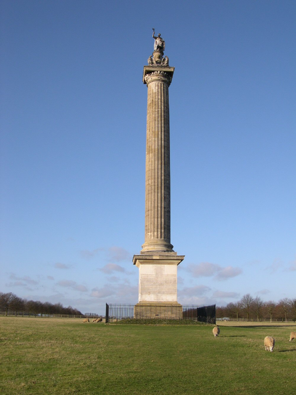 The Column of Victory in the grounds of Blenheim Palace, Oxfordshire, England